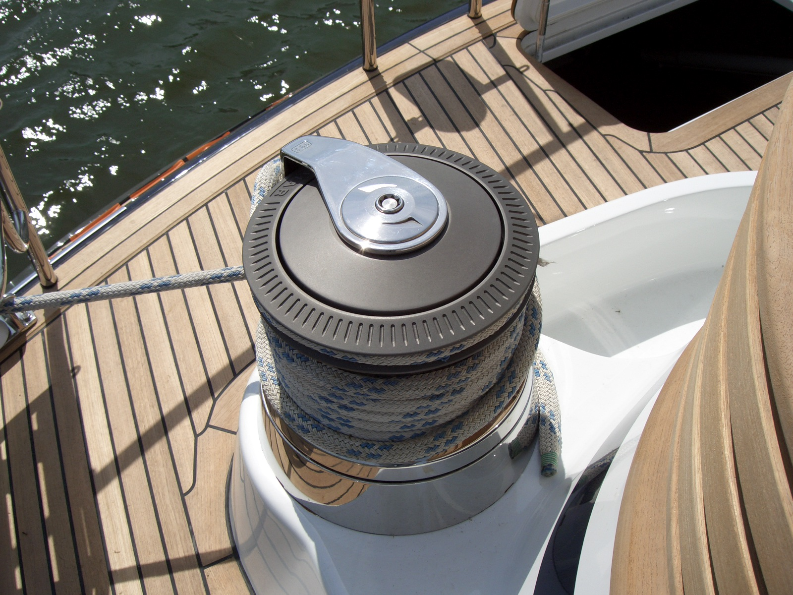 Winch